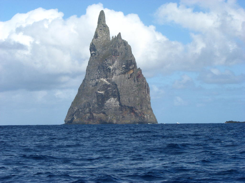 Ball's Pyramid in Lord Howe Island, Australia.